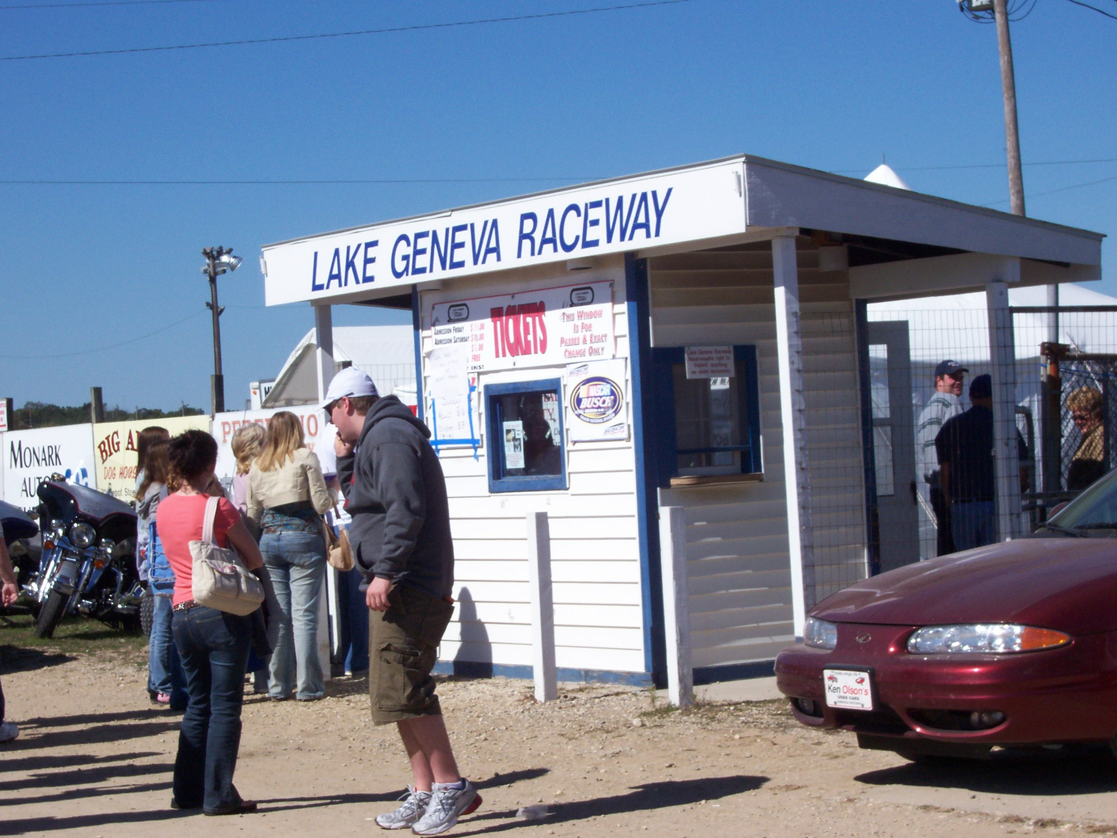 The Lake Geneva Raceway ticket booth in Lake Geneva, Wisconsin. This image was taken October 1, 2006 by User:Royalbroil at the final official stockcar event at the track.